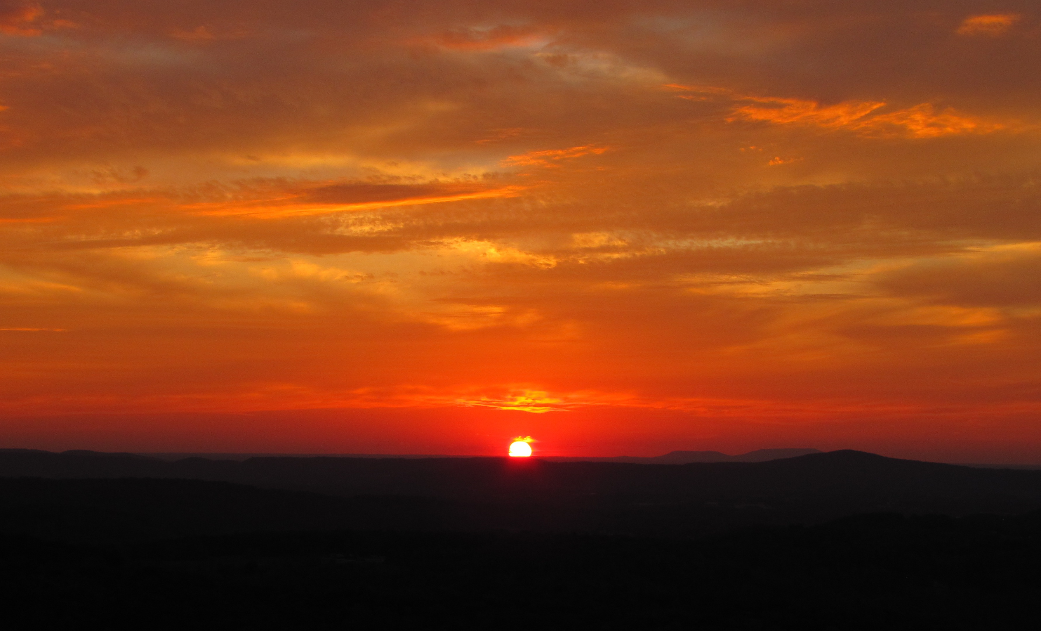 Sunset over the Highland Rim, viewed from the edge of the Cumberland Plateau just off US-70 in White County, Tennessee, USA.